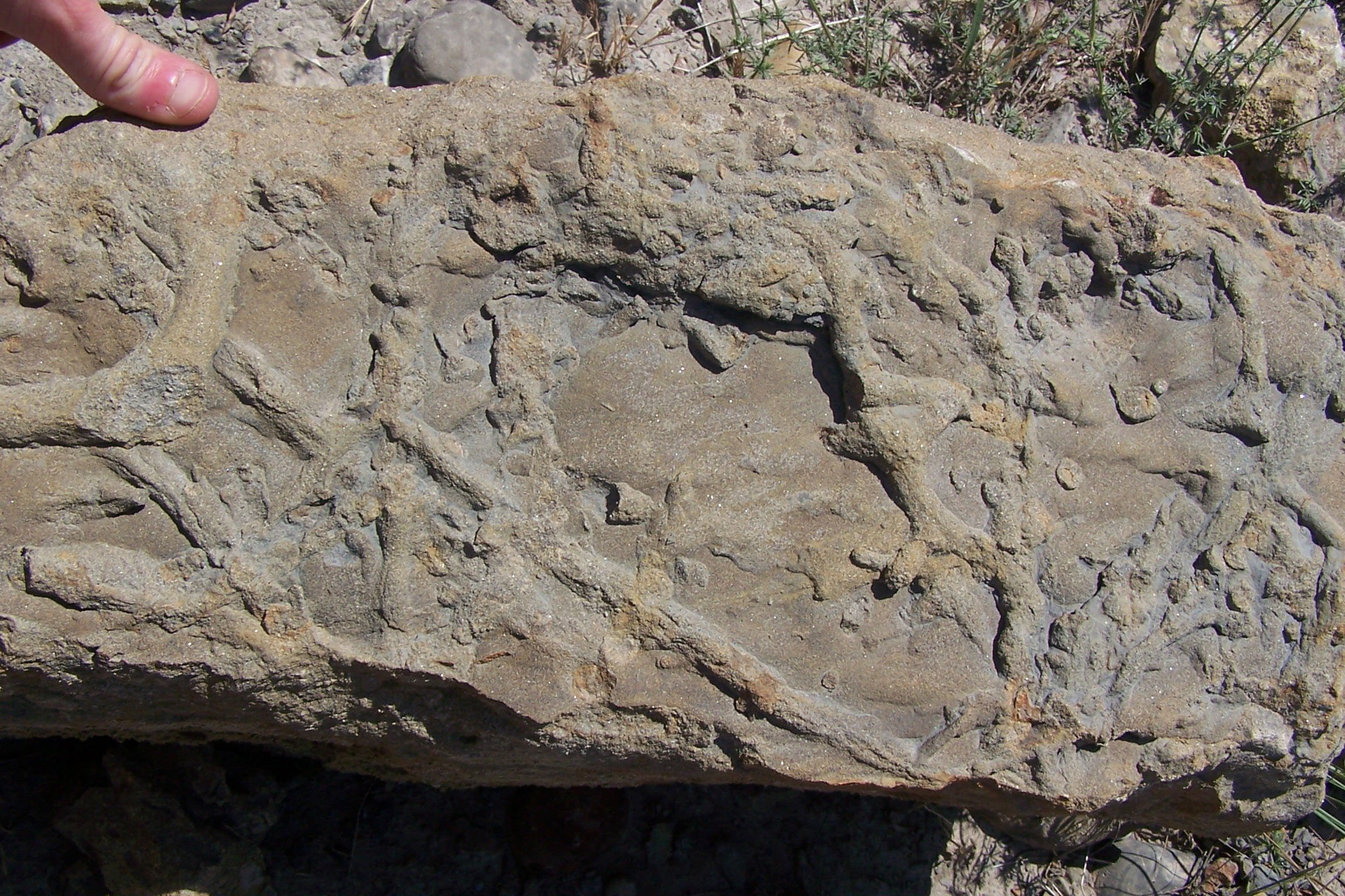 Burrows by crustaceans in a turbite. San Vicente Formation (50 Ma, Cuisian = Ypresian = early Eocene), Hecho Group, Ainsa Basin, South Pyrenean foreland.